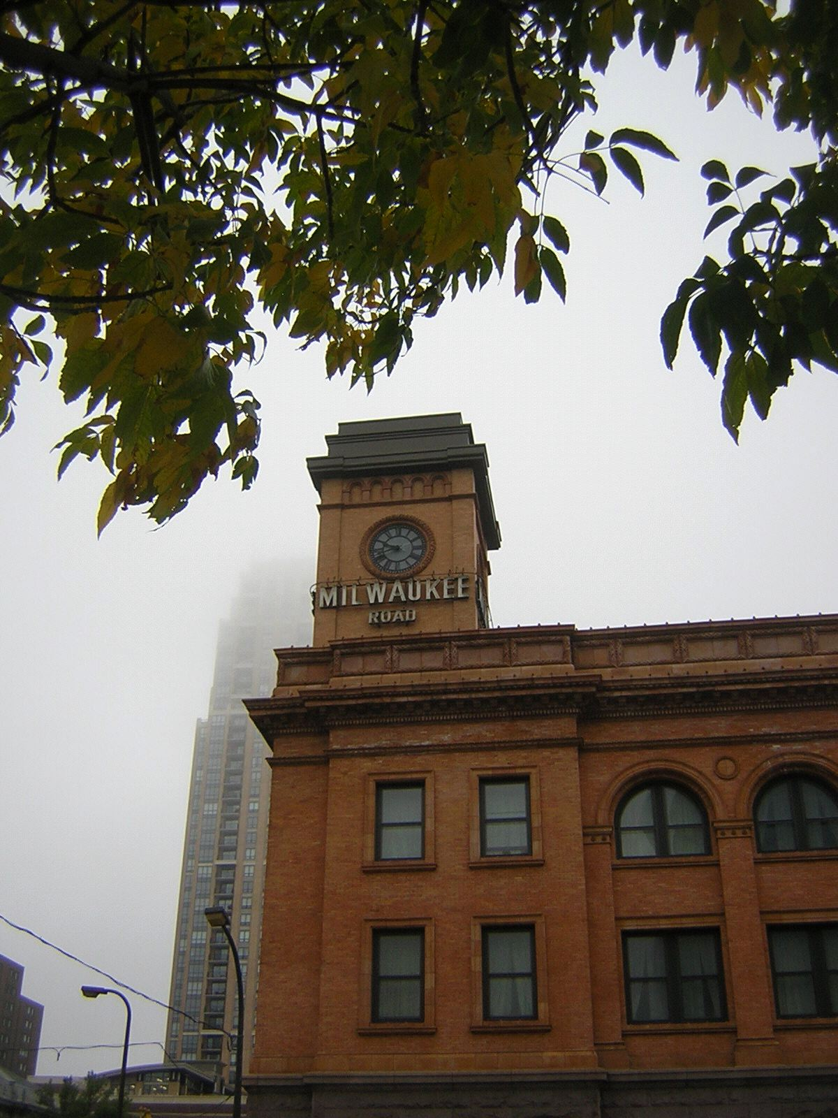 Milwaukee Road, now a Marriott hotel, in Minneapolis, Minnesota, USA